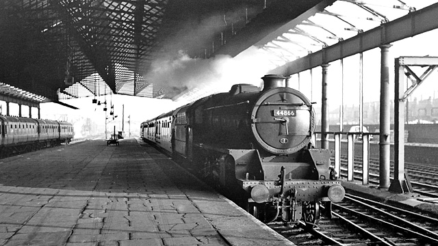 Rugby (LMR) Station, with train. View eastward, towards London, also Northampton, Market Harborough and Peterborough; ex-London & North Western, West Coast Main Line, major junction. The view is along the main central island platform (No. 1), with Stanier Class 5 4-6-0 No. 44866 arriving on a Down stopping train. On the right is the Down Through and outside the overall roof the Down Goods line; the line of coaches on the left is at Bay Platform 8. The station is now totally rebuilt, without the great overall roof - and of course electrification wires everywhere